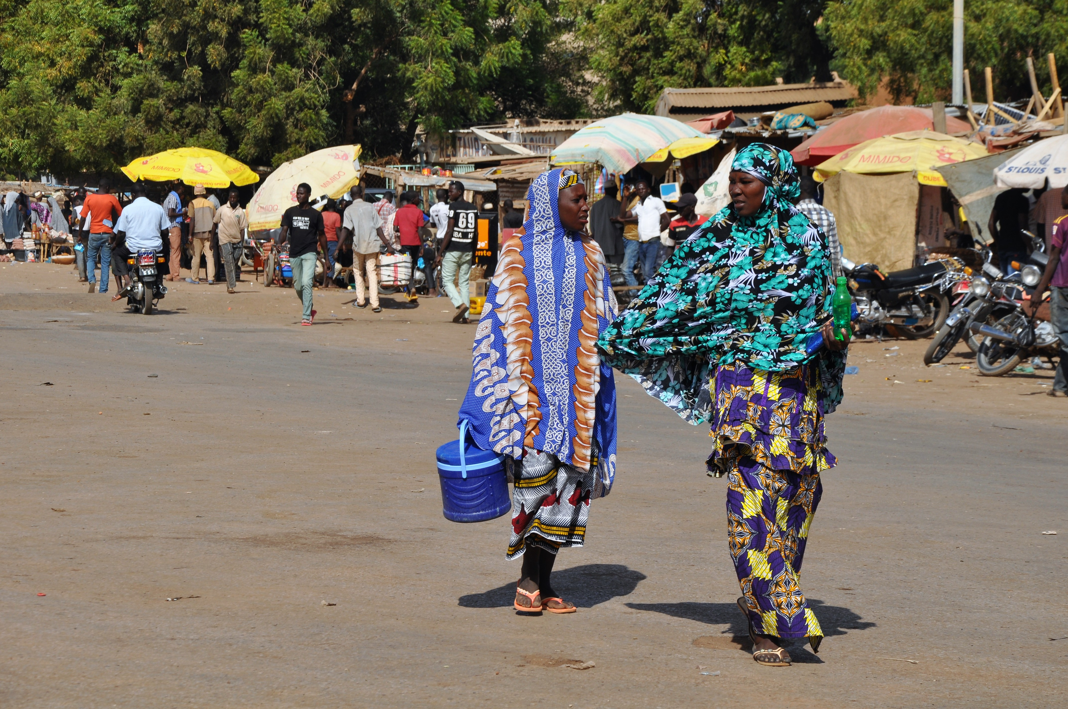 A street scene in the town centre of Dogontdoutchi, Niger (Department of Dogondoutchi; Dosso Region)